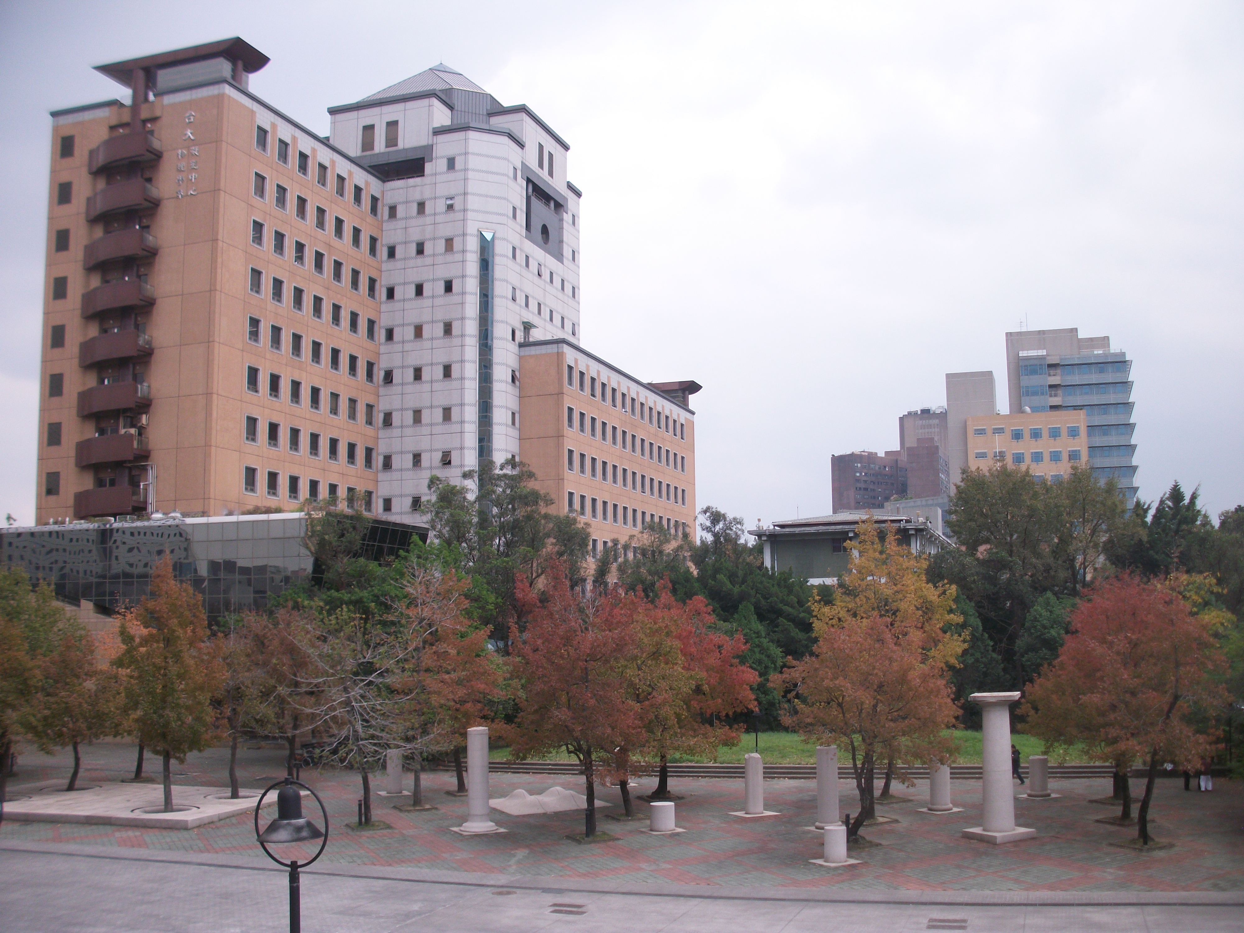 Building of the Condensed Matter Center and the Department of Physics, National Taiwan University. (The farther one is the Astro-Math Building of NTU and ASIAA.